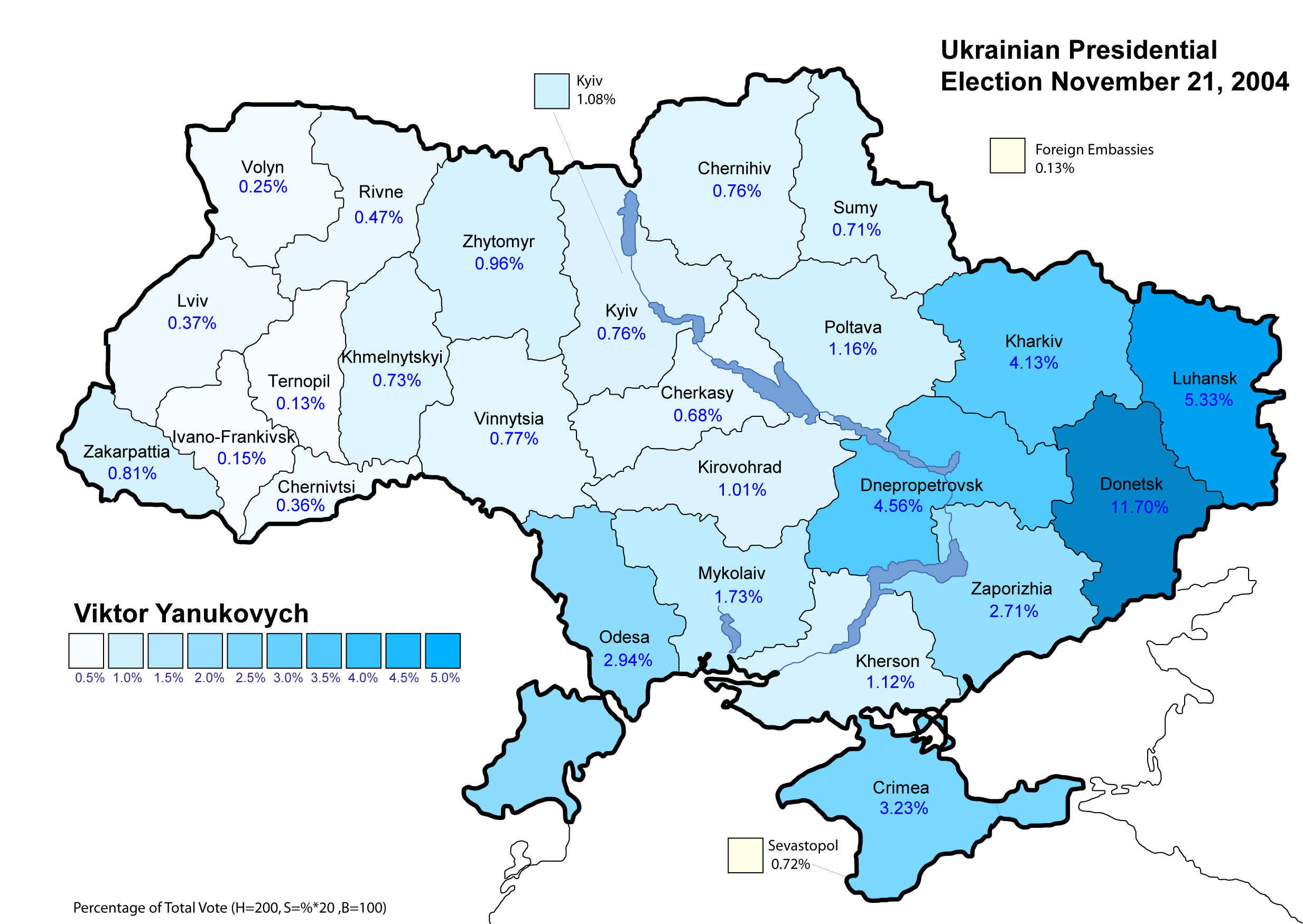 Ukrainian Presidential Election October 2004 - Viktor Yanukovych (Second Round)